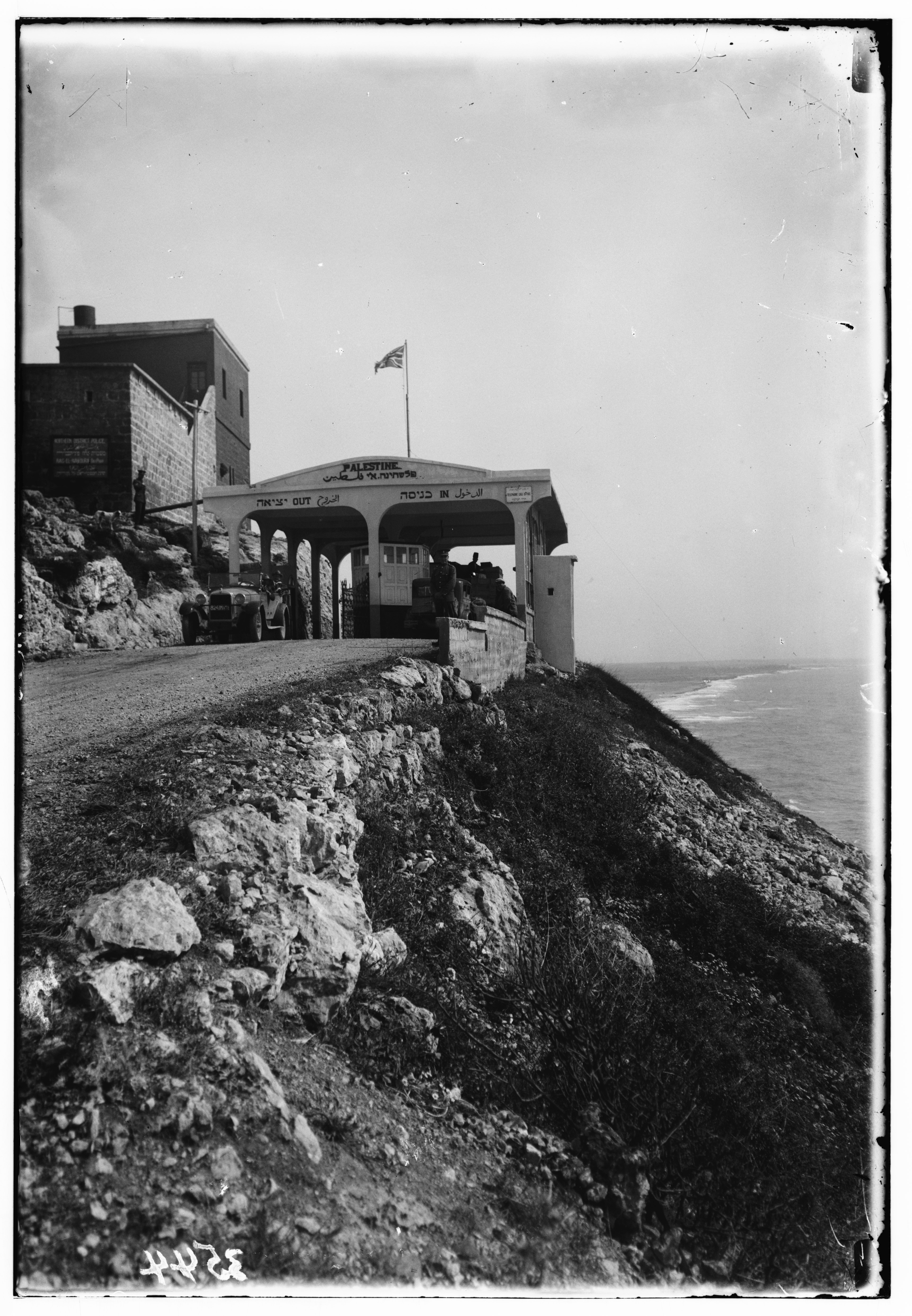 Title: Akka (Acre, Accho). Nakura. The gateway to Palestine. British frontier post on the seacoast Abstract/medium: G. Eric and Edith Matson Photograph Collection Physical description: 1 negative (2 plates)